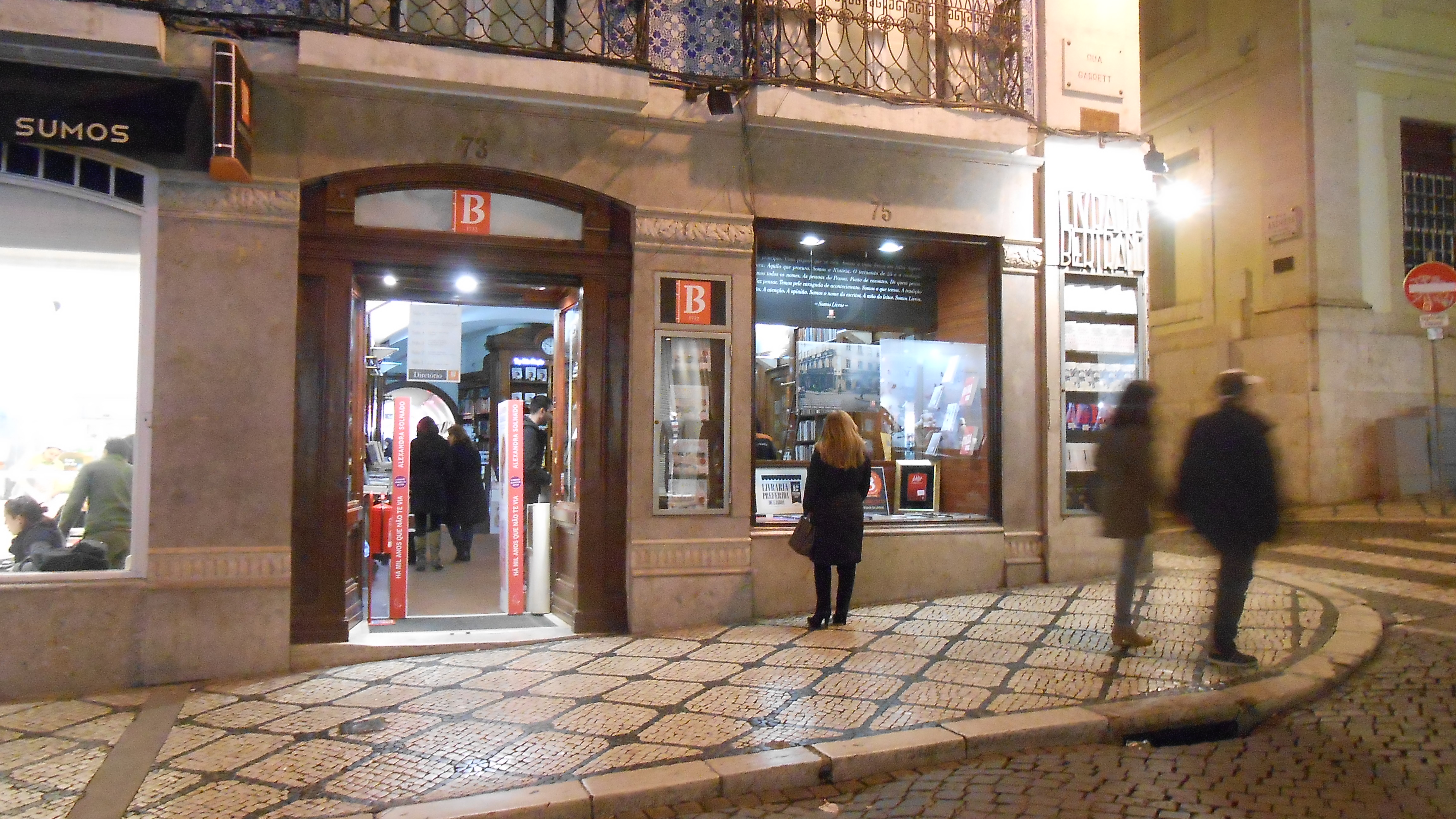 Livraria Bertrand in the Chiado quarter in Lisbon is the oldest existing bookshop in the world.